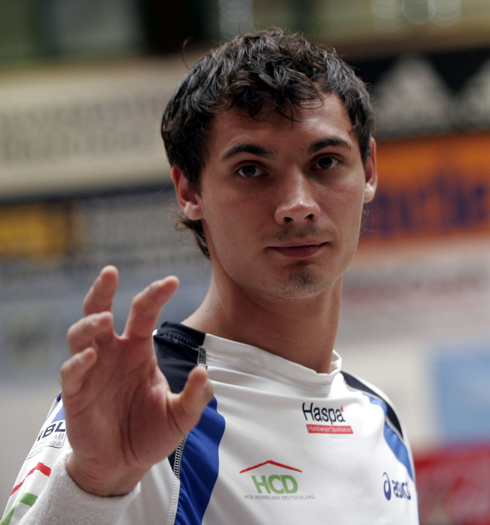 Krzysztof Lijewski, Polish handball player from HSV Hamburg, during the Schlecker Cup 2007 in Ehingen (Germany)